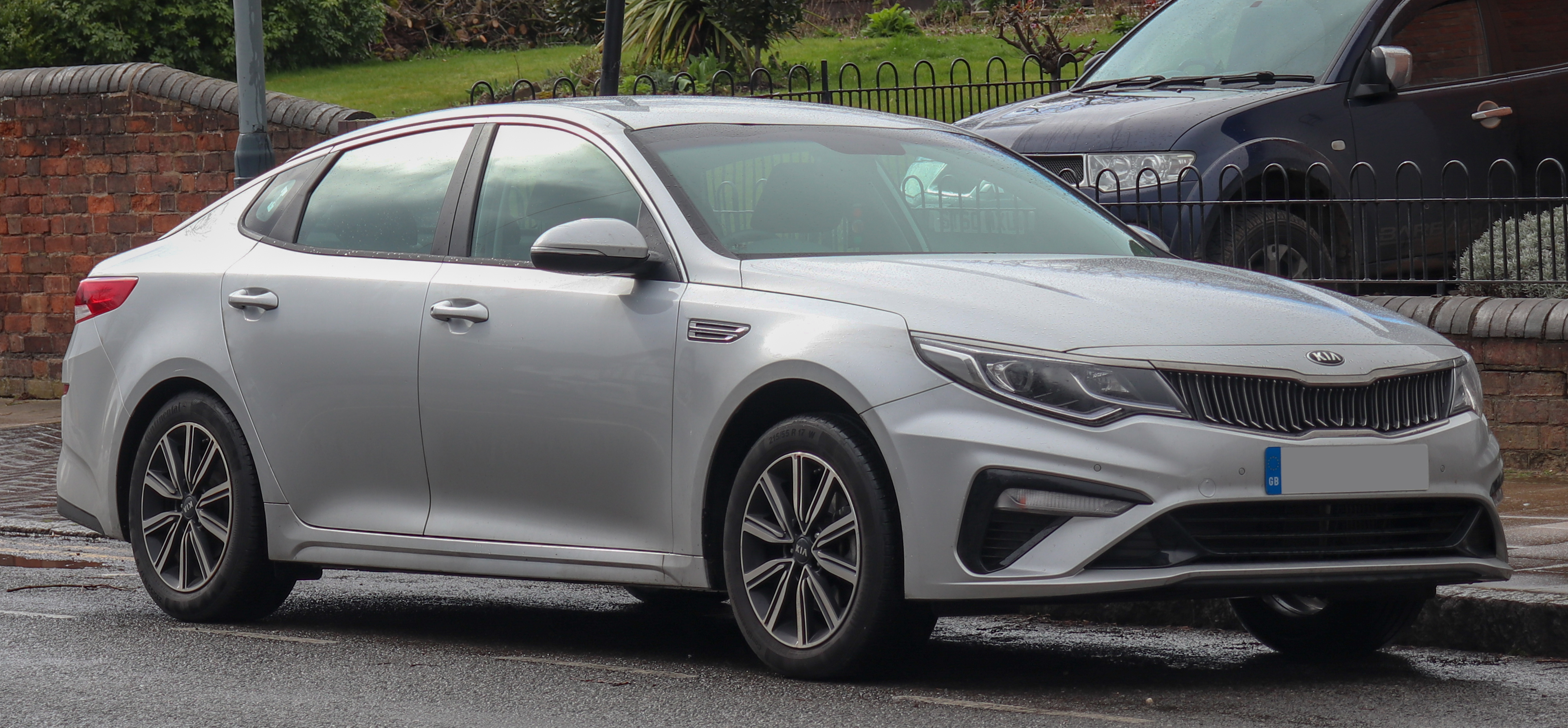 2018 Kia Optima 2 CRDi ISG 1.6 facelift Front